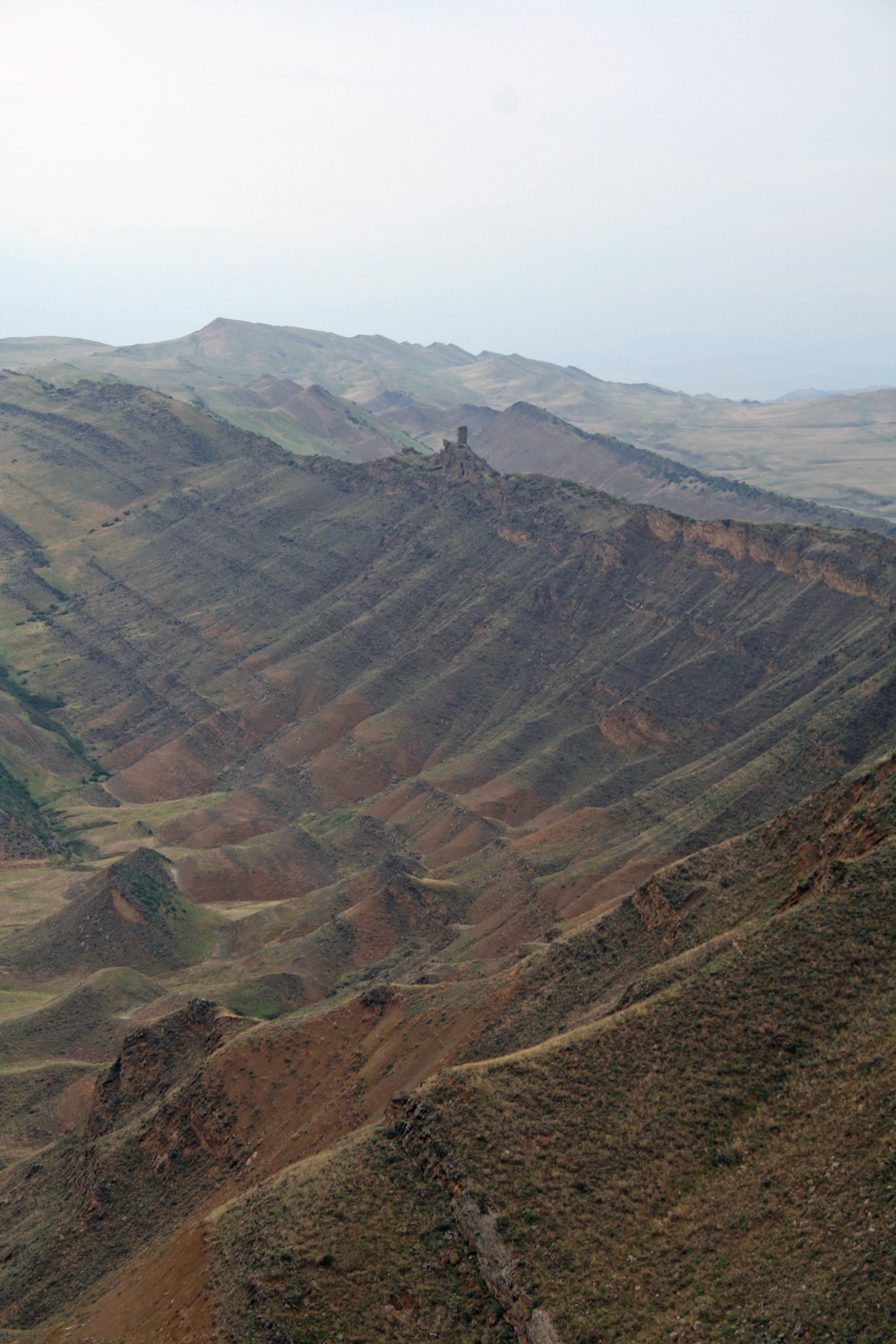 David Gareja monastery complex